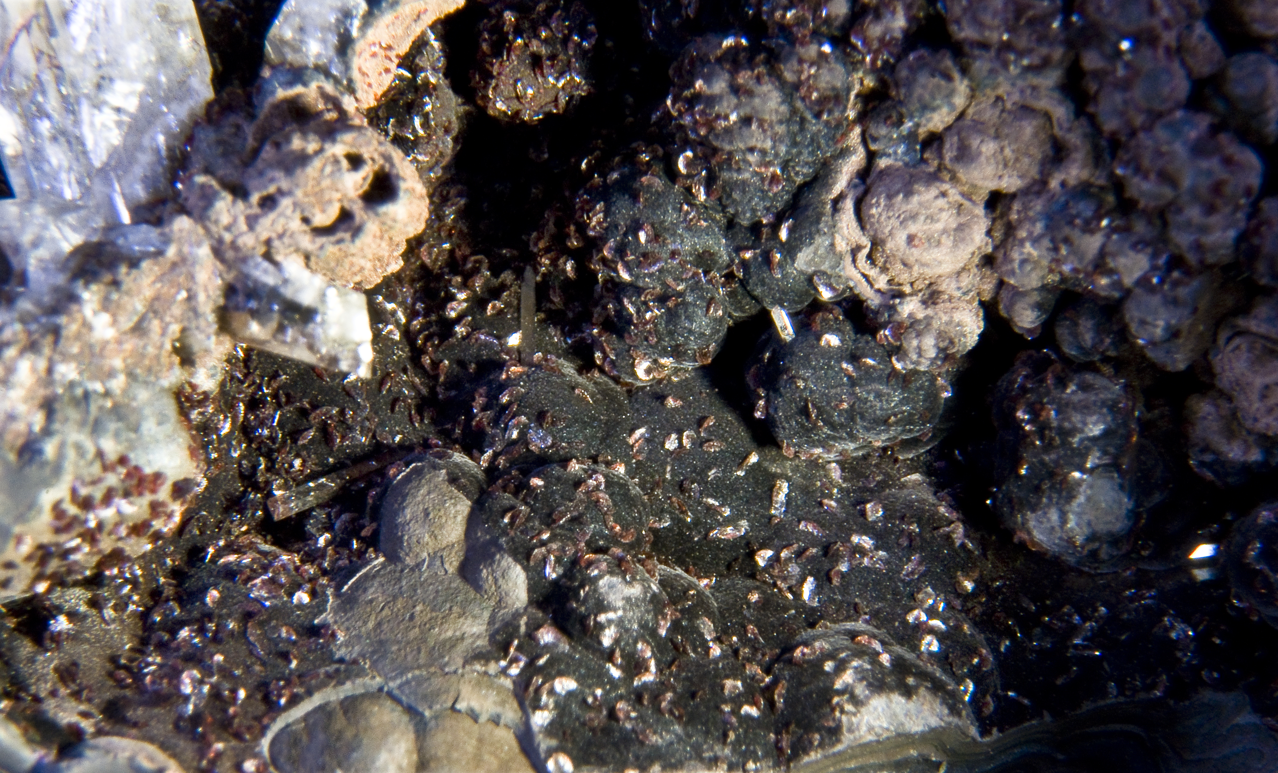 Lotharmeyerite on chalcophanite - Ojuela Mine, Mapimí, Mun. de Mapimí, Durango, Mexico (View 1cm)